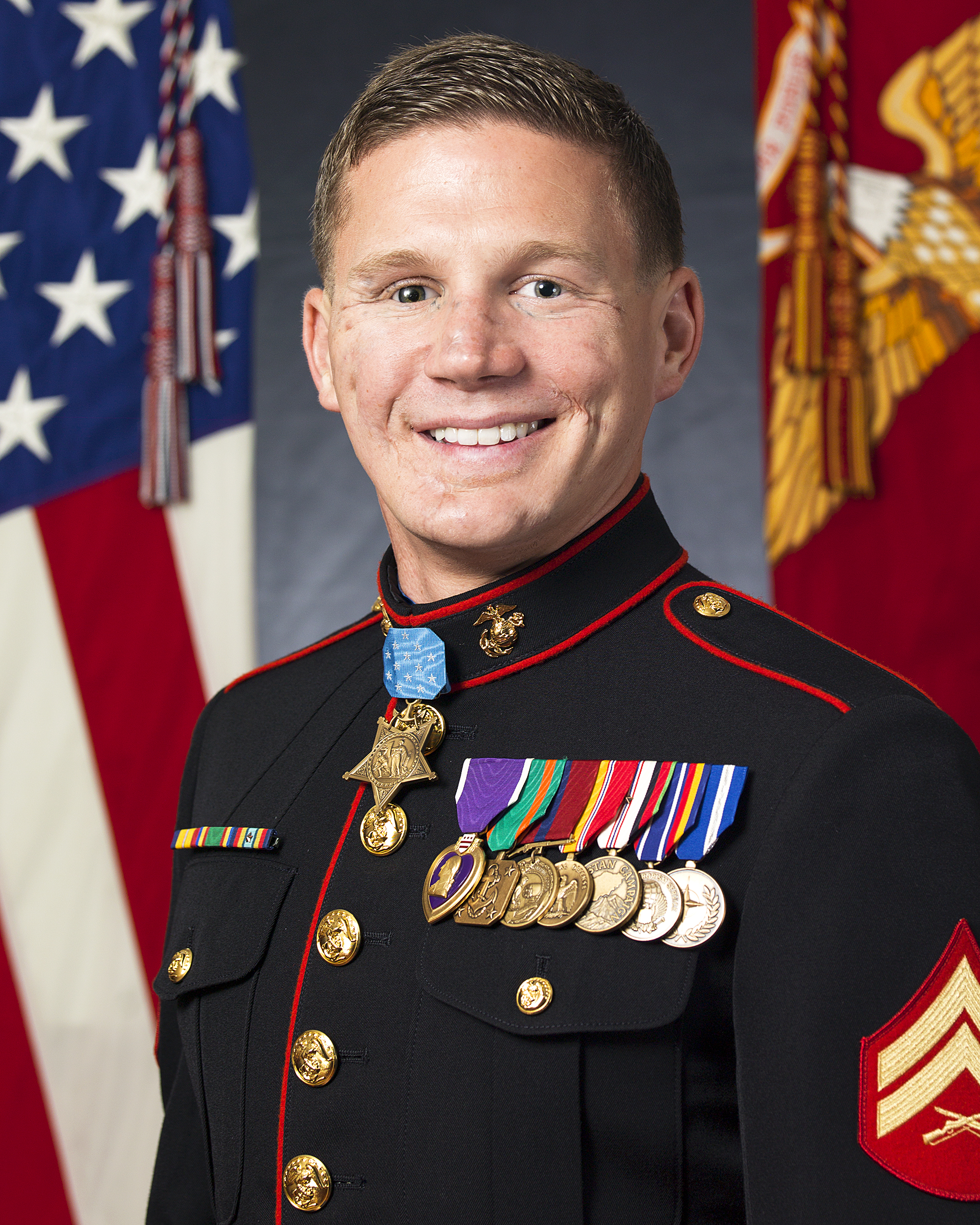 Official Photo of U.S. Marine Cpl. William Kyle Carpenter, Medal of Honor Recipient